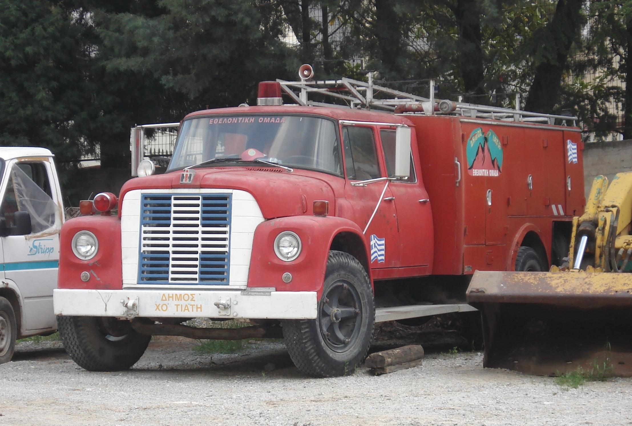 Fire fighting vehicle in Thessaloniki region, Greece. International Harvester.